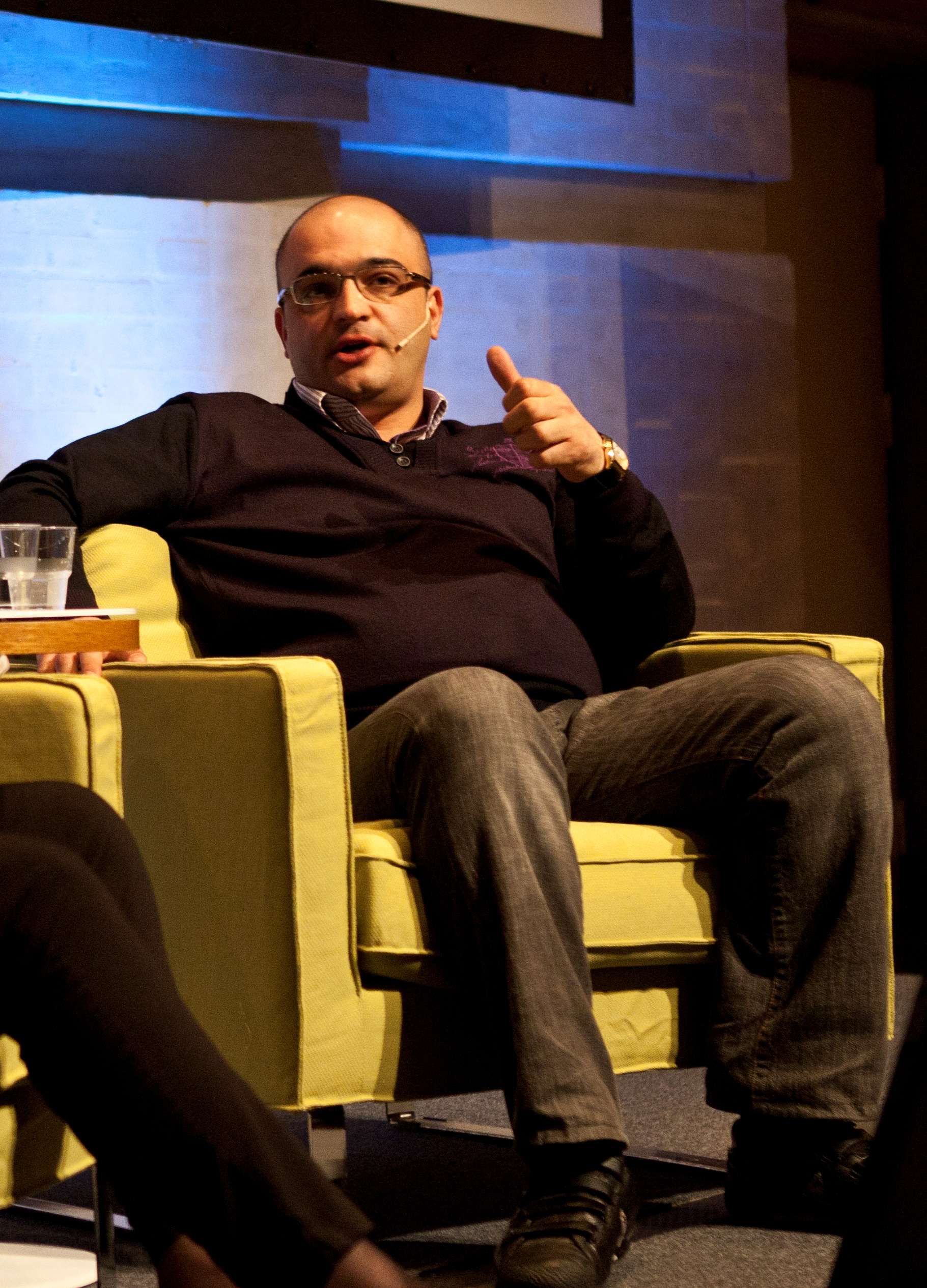 Eynulla Fatullayev (born 1976, Baku) is an Azerbaijani journalist and editor-in-chief of the independent Russian-language weekly Realny Azerbaijan. Photo: Mariel Lødum